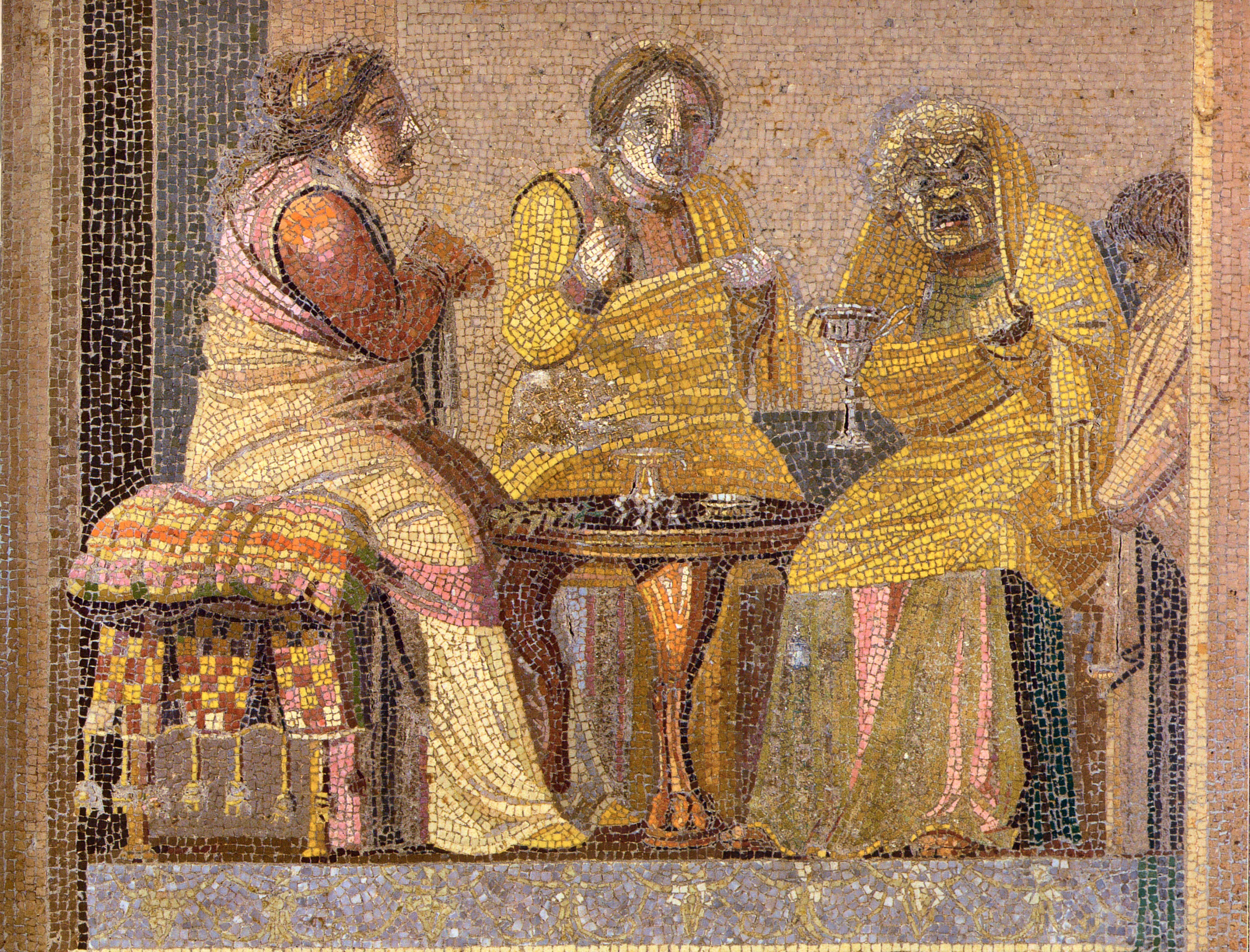 Theatre scene: two women making a call on a witch (the three of them wear theatre masks). Roman mosaic from the Villa del Cicerone in Pompeii, now in the Museo Archeologico Nazionale (Naples). Work of Dioscorides of Samos